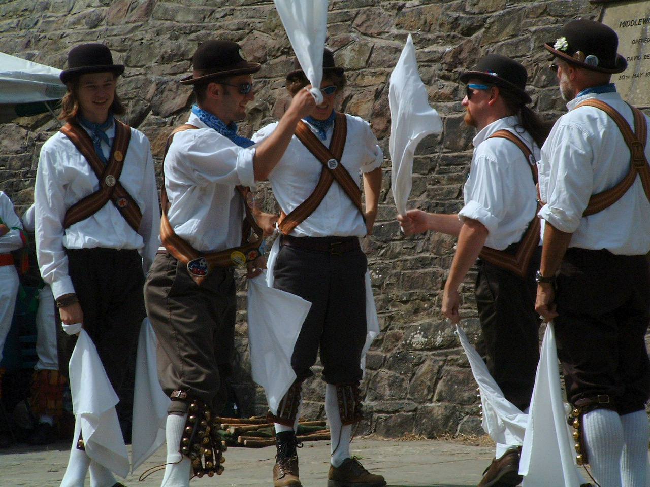 Morris Dancers at the Middlewood way 20th anniversary celebrations Poynton July 2005morrismen